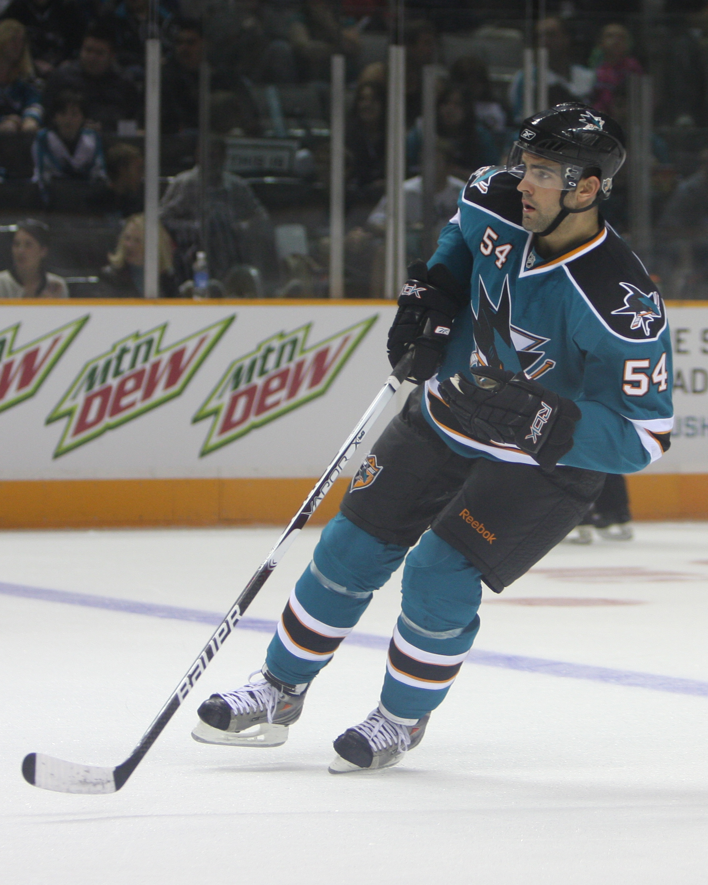 Nick Petrecki during the SJ Sharks Teal and White game in 2009.